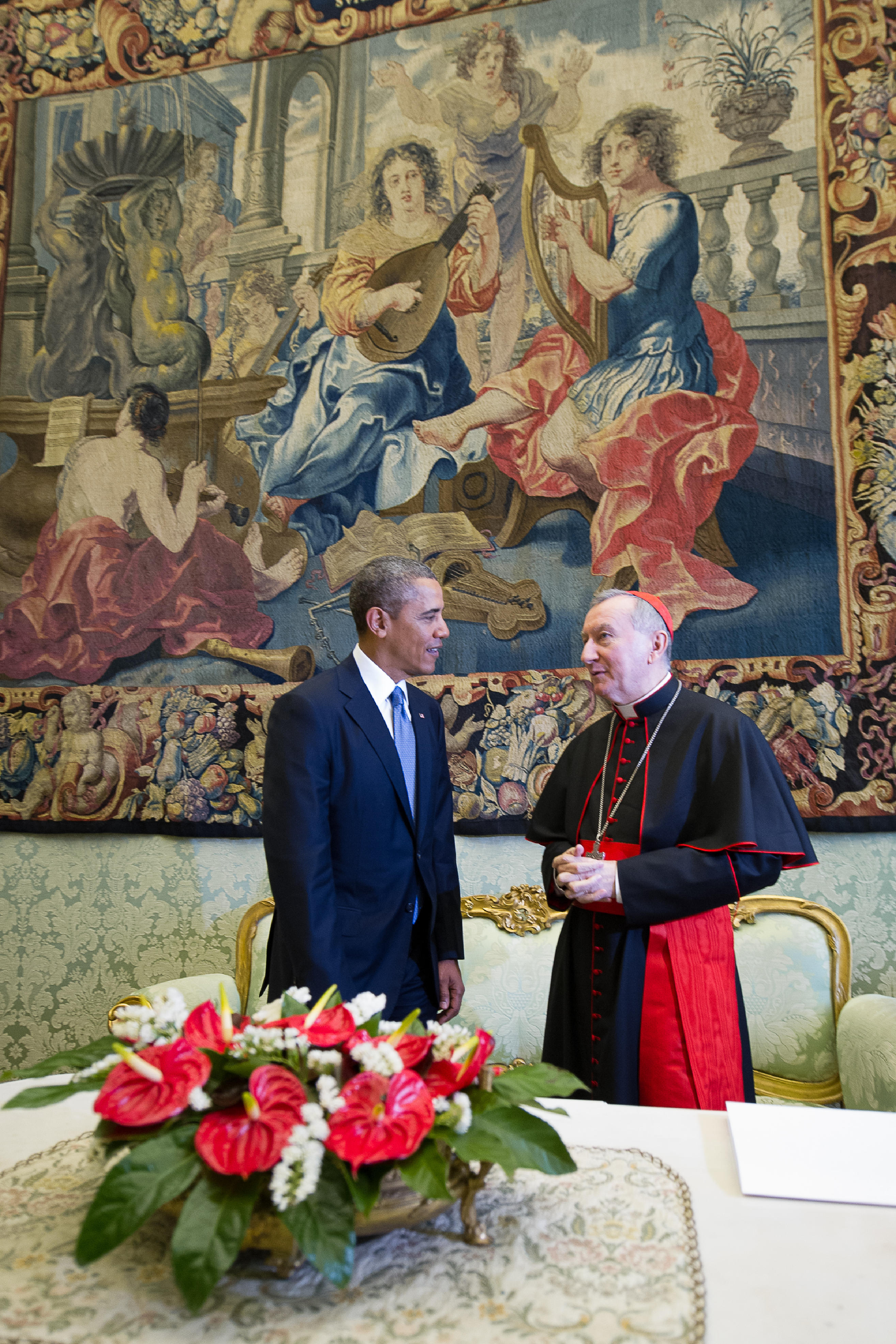 President Obama meets Secretary of State, Pietro Cardinal Parolin, 27 March 2014